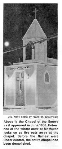 Chapel of the Snows